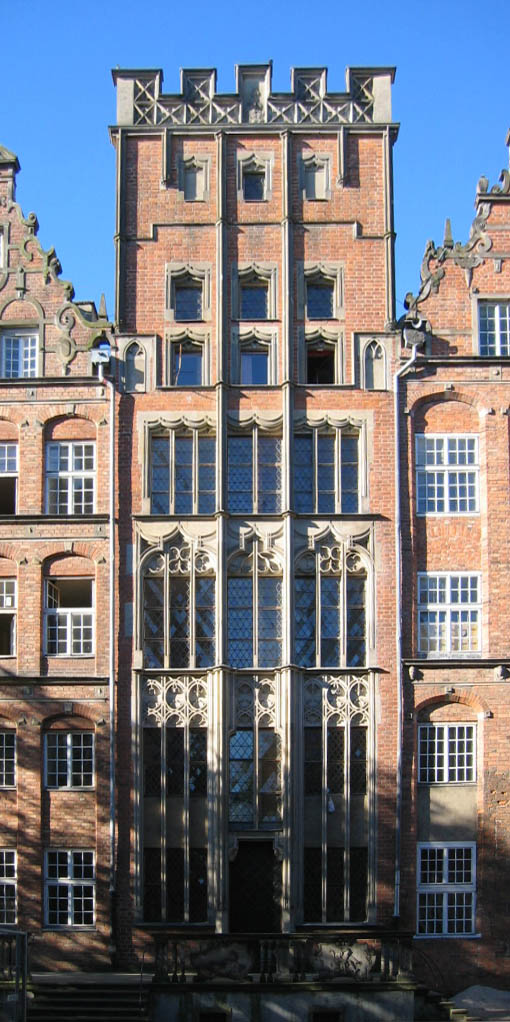 Gdansk, Poland, House of the Schlieff family